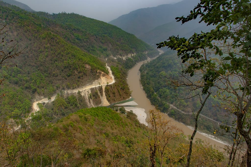 Teesta (dirty one) and Rangeet Confluence